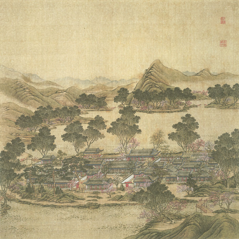 Jiuzhou qing yan The residence of the imperial family, built on nine small islands connected by bridges and adjoining buildings